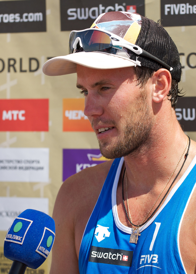 Grand Slam Moscow 2012